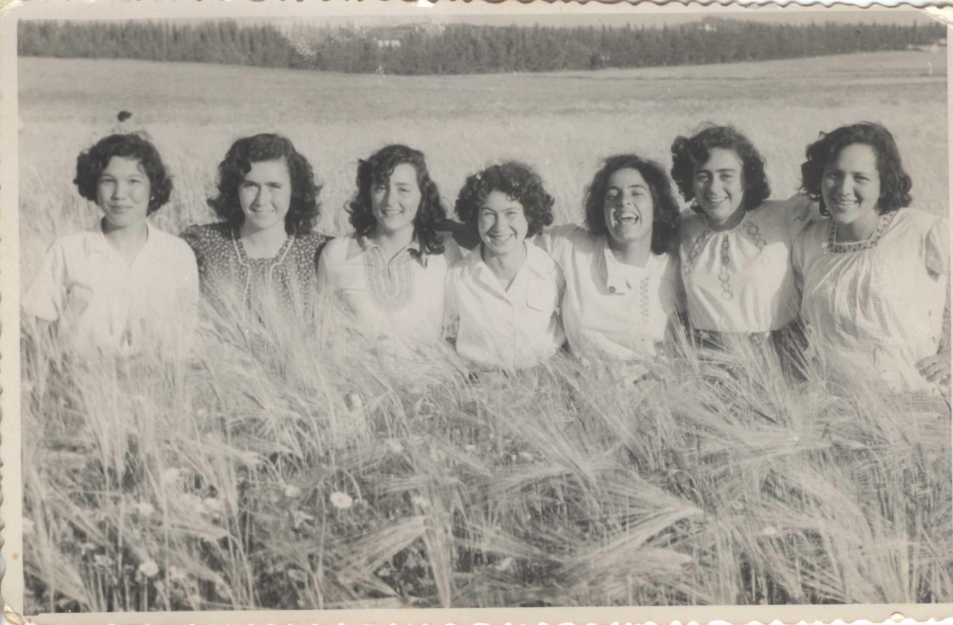 Moshav Beit Hanan girls during first harvest celebrations, early 1950s.